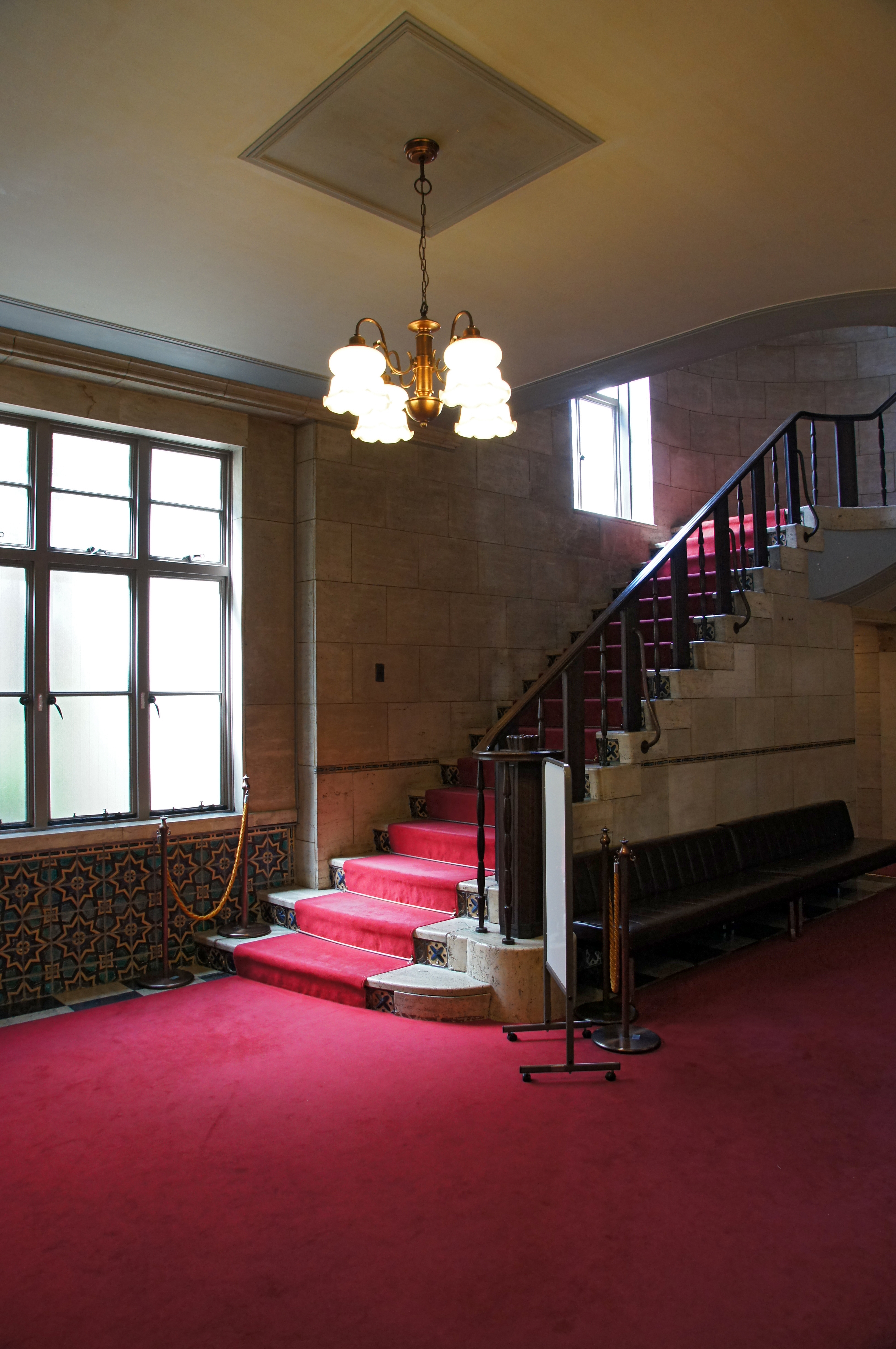 Kishiwada municipal hall "Jisen-kaikan" in Kishiwada, Osaka prefecture, Japan